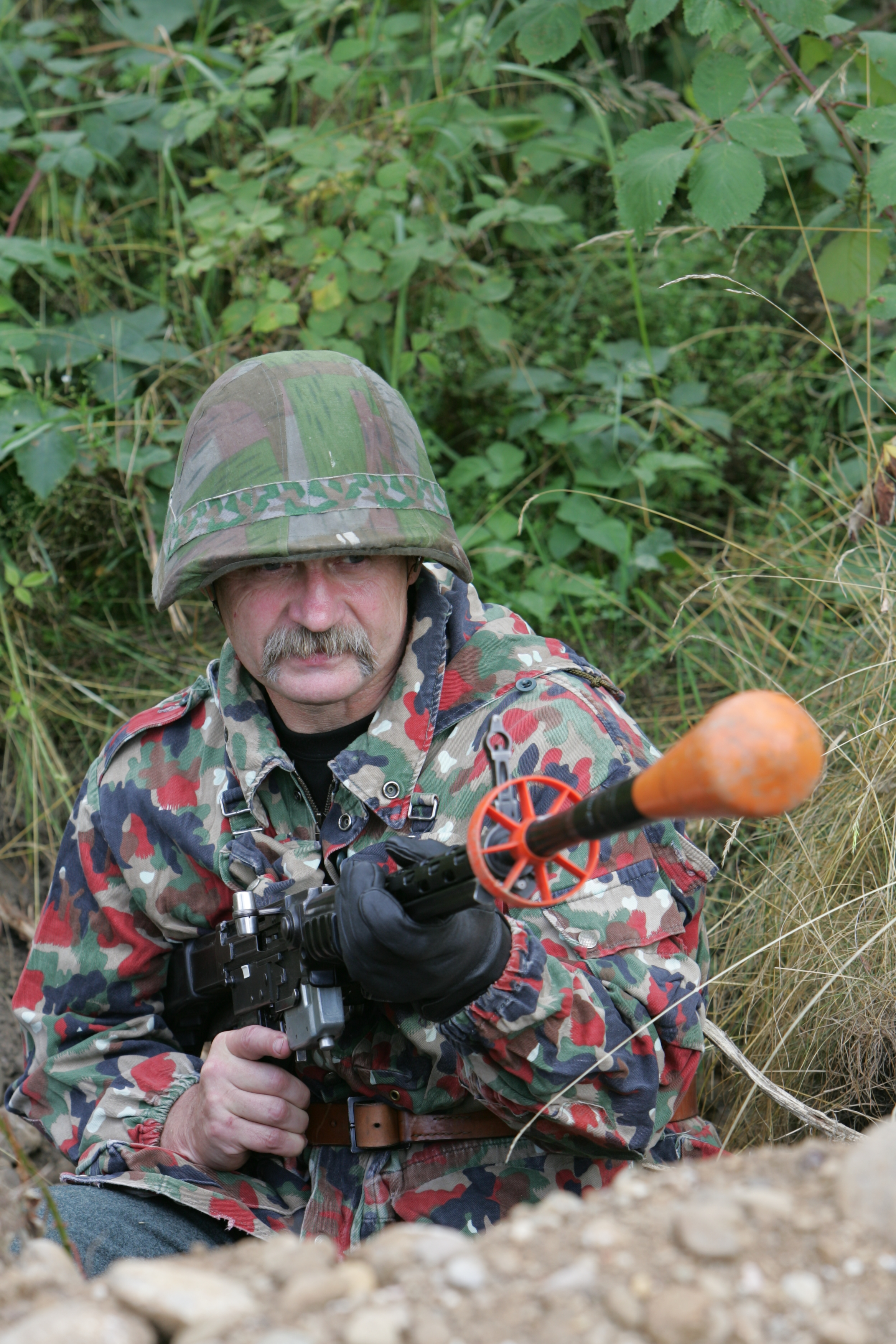 6. IMFT in Full-Reuenthal